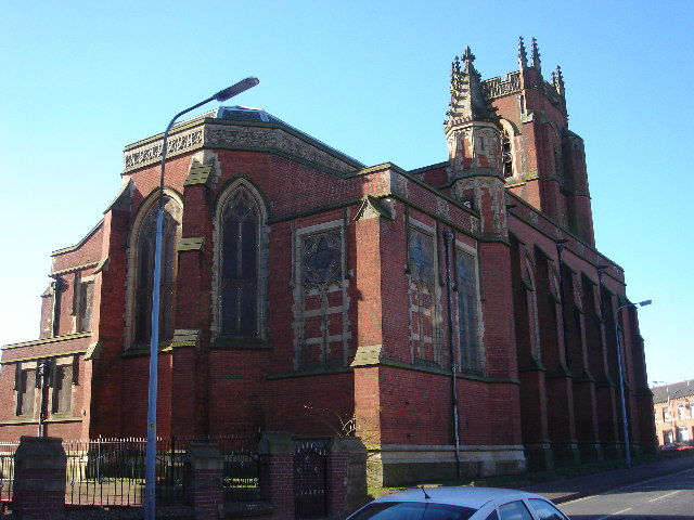 Photograph